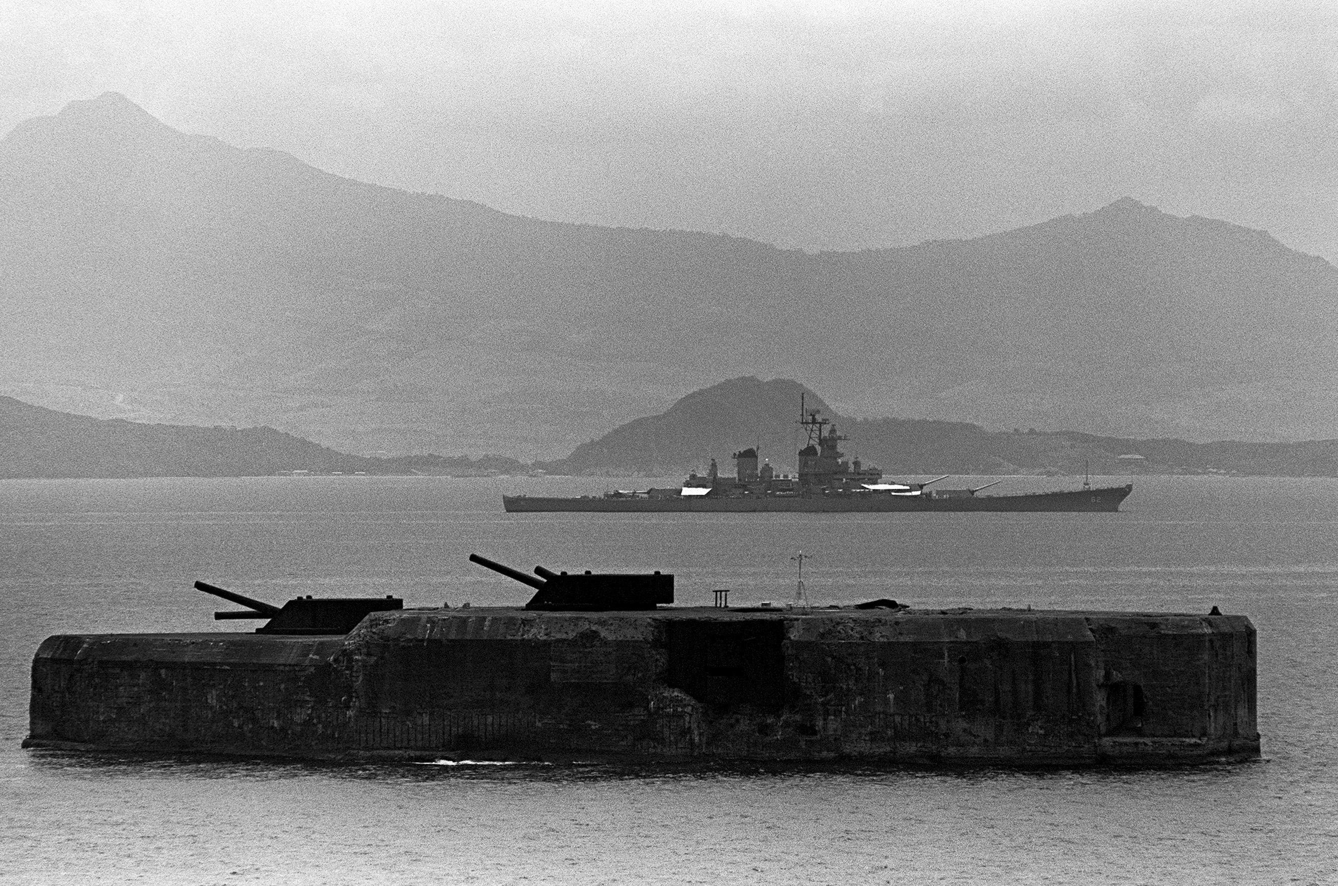 Starboard beam view of the battleship USS NEW JERSEY (BB-62) passing between CORREGIDOR (background) and FORT DRUM as she enters Manila Bay. Date: 3 Jul 1983 Camera Operator: PH2 PAUL SOUTAR ID: DN-SN-83-09891 Service Depicted: Navy